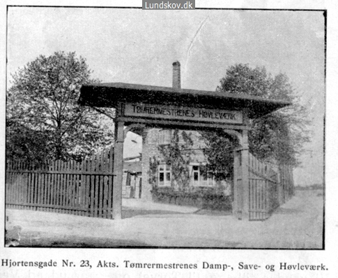 The entrance to Tømrermestrenes Damp,- Save- og Høvleværk